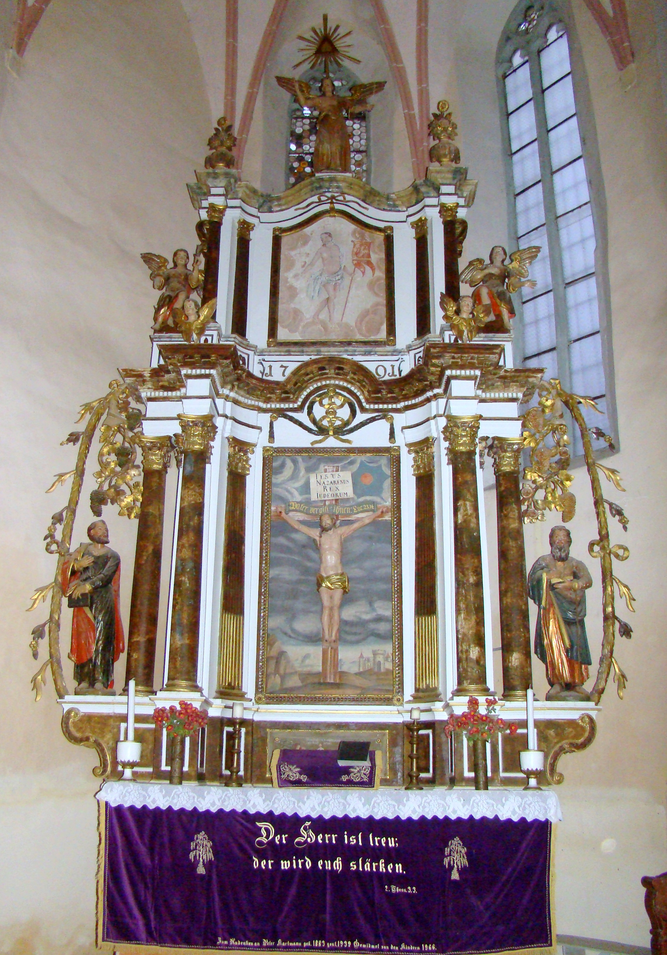 Lutheran church in Ațel, Sibiu County, Romania